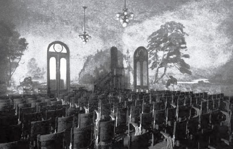 Photograph of the Telestial Room in the Salt Lake Temple of The Church of Jesus Christ of Latter-day Saints.